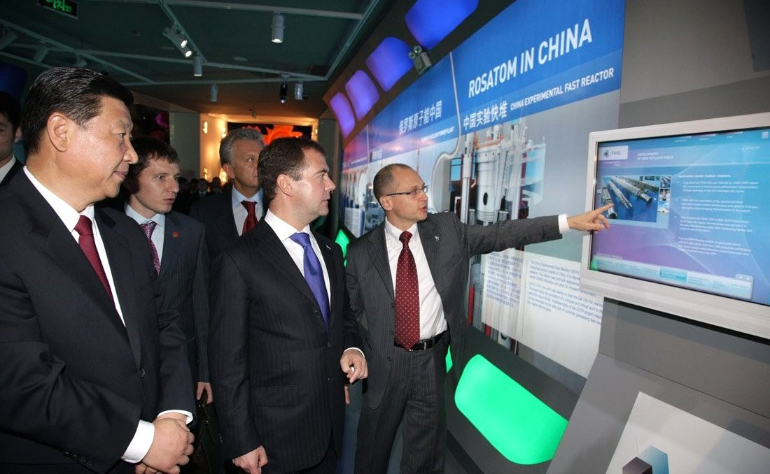 Visit to the Russian Pavilion at the 2010 World Expo. With Vice President of China Xi Jinping and CEO of Rosatom State Nuclear Energy Corporation Sergei Kiriyenko (right).